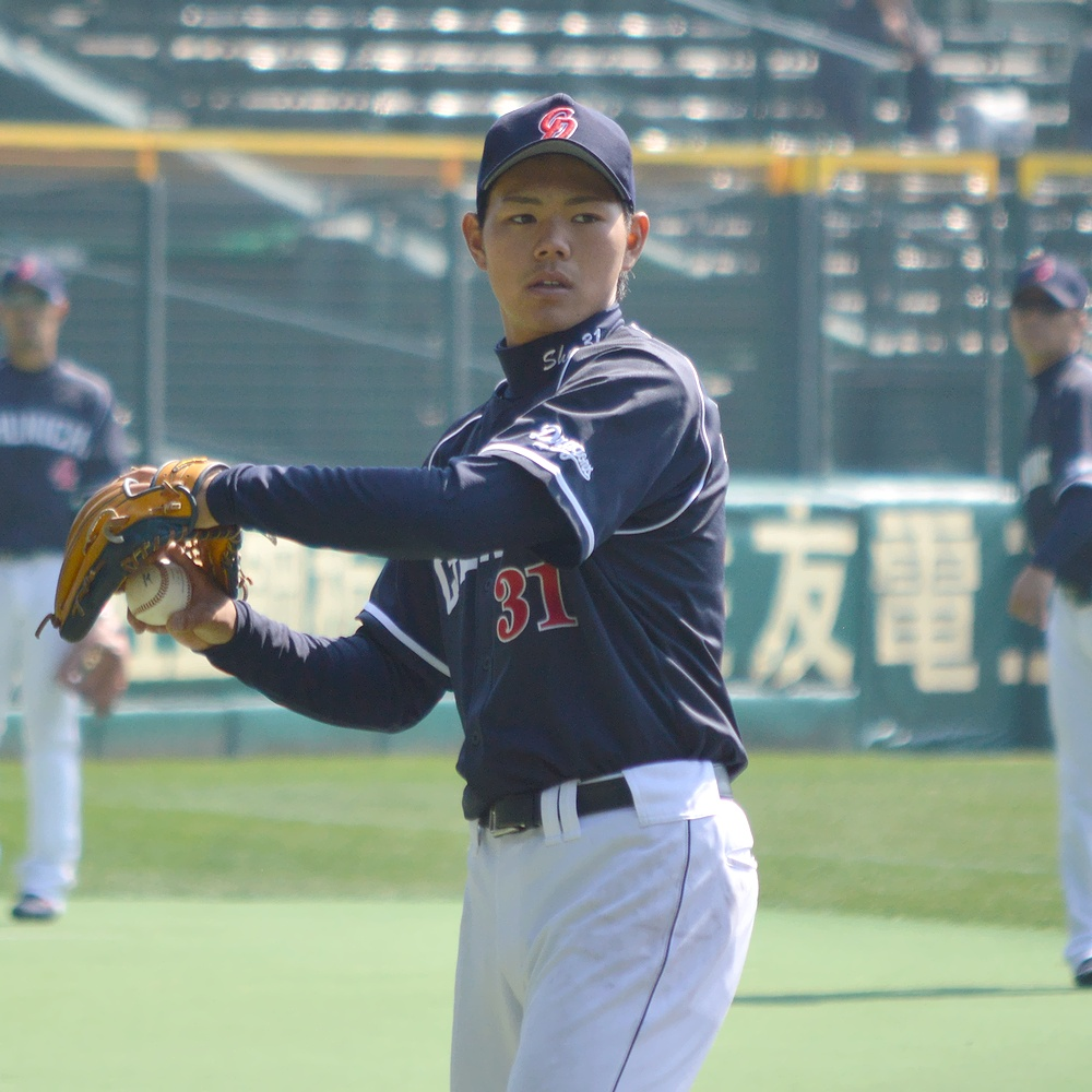 CD-Syuuhei-Takahashi20130306